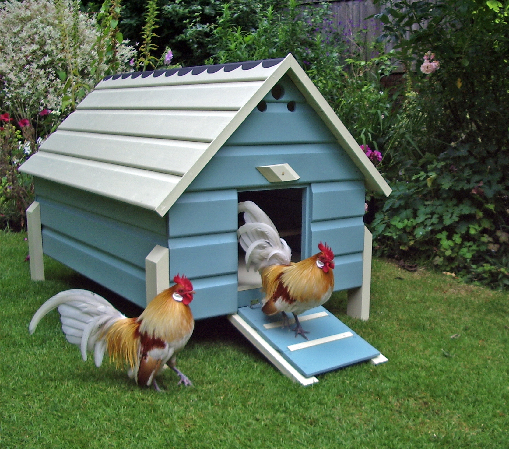 Two Dutch Bantam roosters in chicken coop by Oakdene Coops